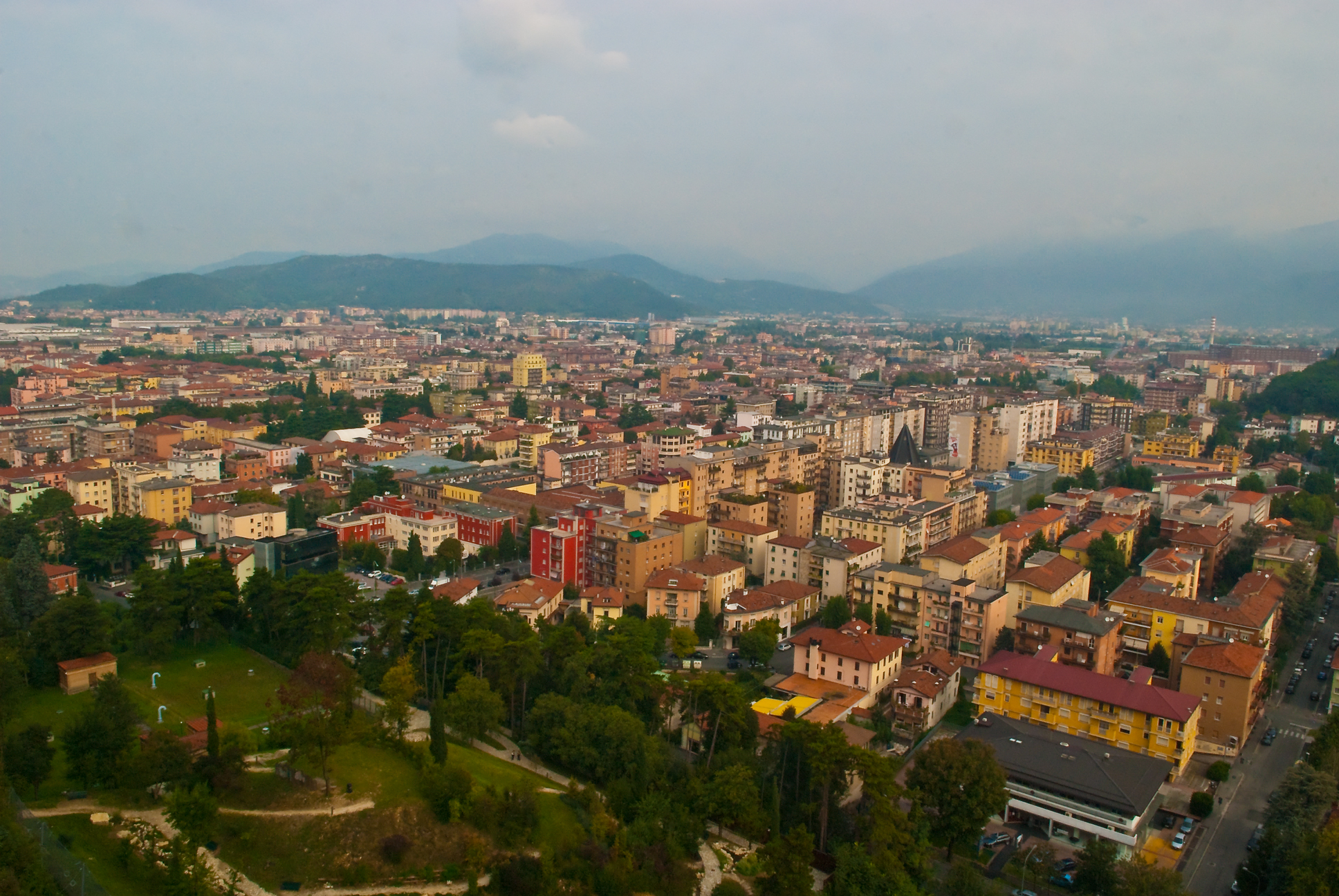 Bresà my beautiful city